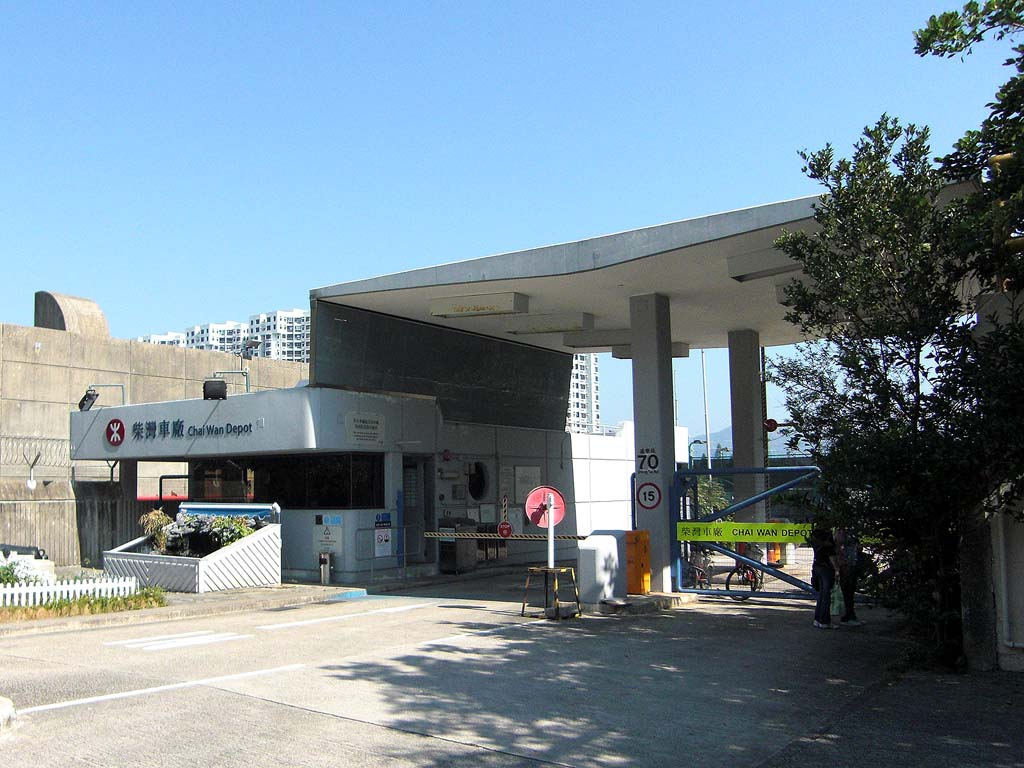 MTR Chai Wan Depot 中文（香港）: 港鐵柴灣車廠